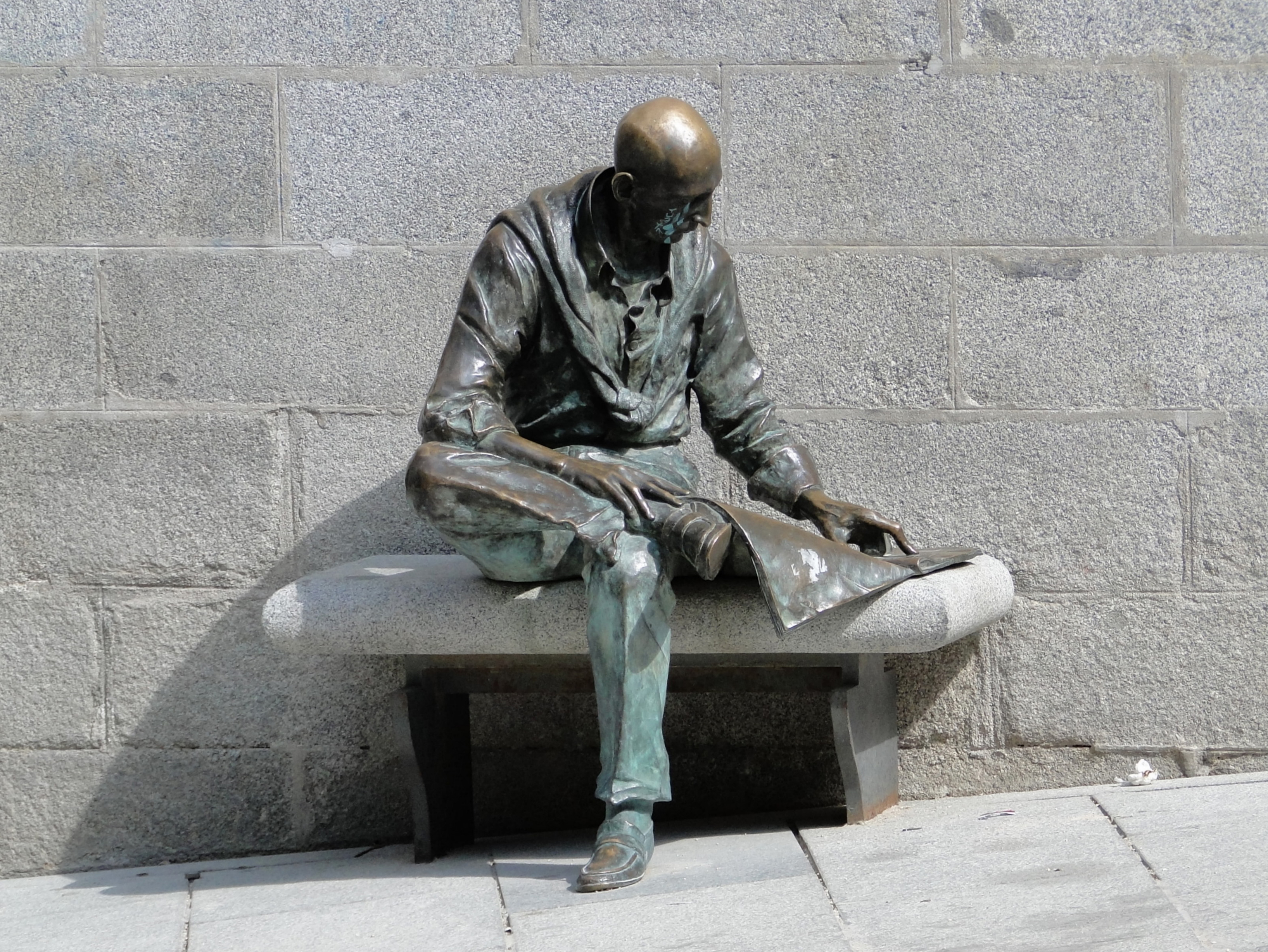 Statue on Plaza de la Paja, Madrid, Spain